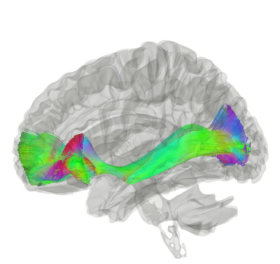 Tractography showing inferior fronto occipital fasciculus on a population-averaged template